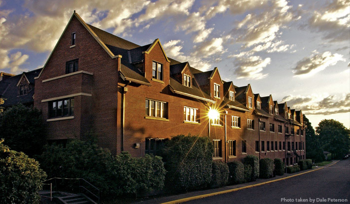 Todd Hall was built as a women’s residence hall in 1912 and was named for Jessica Todd, director of dormitories and dean of women. She believed in teaching students the social graces, so Todd Hall was elegantly furnished with antiques and oriental rugs. Today, you’ll find psychology and philosophy faculty offices; The Teaching Research Institute; and a child care center that offers an integrated pre-school program for children.